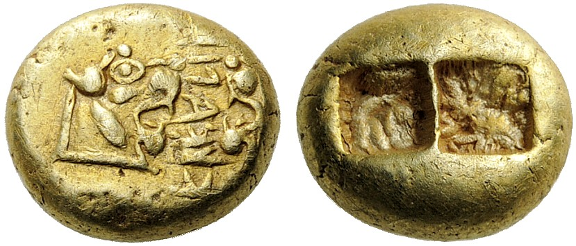 KINGS of LYDIA. Period of Alyattes II. Circa 610-560 BC. Trite (Electrum, 13mm, 4.72 g), so-called “Branch” mint. KUKALI[Ṃ] (in Lydian, retrograde Two confronted lion heads, the one on the right nearly off the flan; between them, inscription. Rev. Double incuse square, made from two separate punches. Cf. Wallace, “KUKALIṂ” inscription in Lydian script. A major question concerns the identity of ‘ Kukaliṃ’, the name that appears on this coin. This name, ‘Kukas’, can be transliterated as ‘Gyges’ and it would be tempting to assign it to the historical king of Lydia of that name; however, he lived at least 60-70 years before this coin could have been minted so that identification is untenable. However, since this coin certainly is related to the usual issues of Alyattes from Sardes, but comes from what is known as the Branch Mint, it is tempting to see this ‘Gyges’ as being a son or other close relative of the king who served as a provincial governor or viceroy within the kingdom of Lydia. It can also be suggested that the Branch Mint would not necessarily have to be located outside of Sardes; rather, it could have been a completely separate workshop, using its own personnel, but still located in the capitol so that it could be carefully controlled by the central authorities.